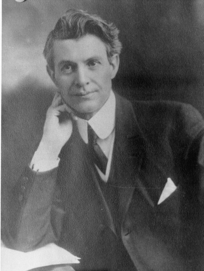 Aubin-Edmond Arsenault, premier of Prince Edward Island